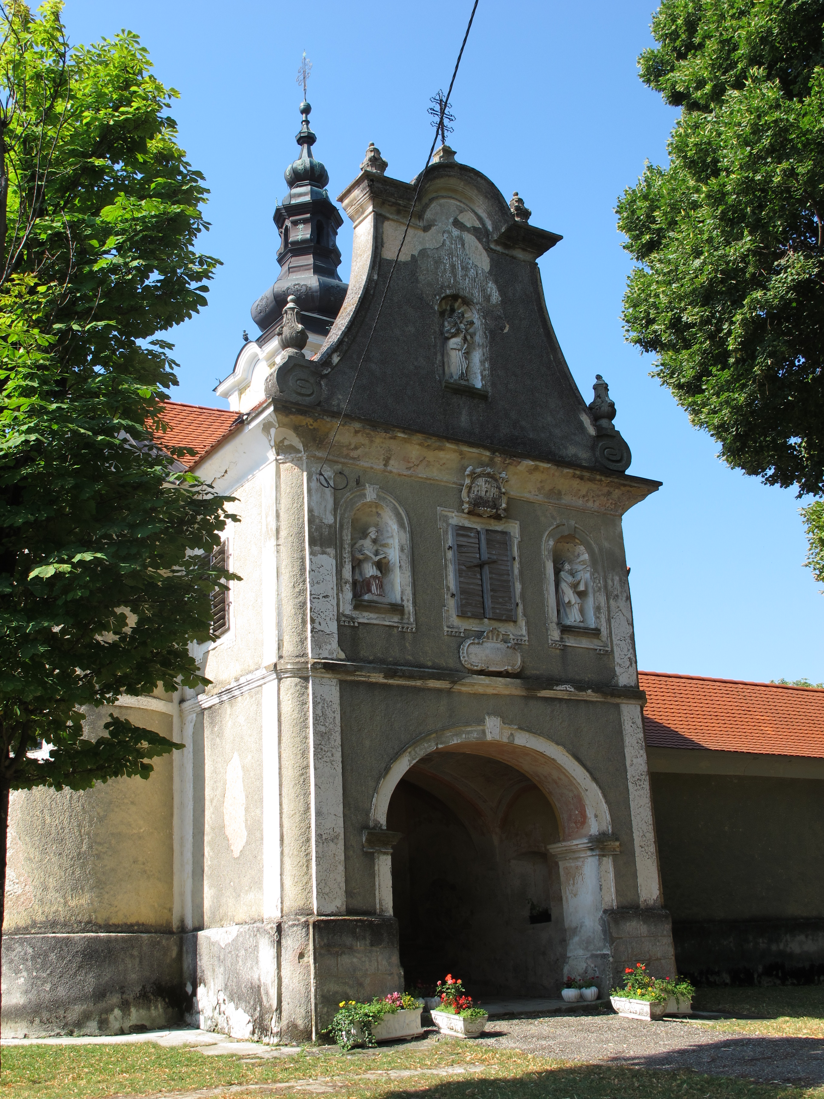 Trški Vrh Krapina